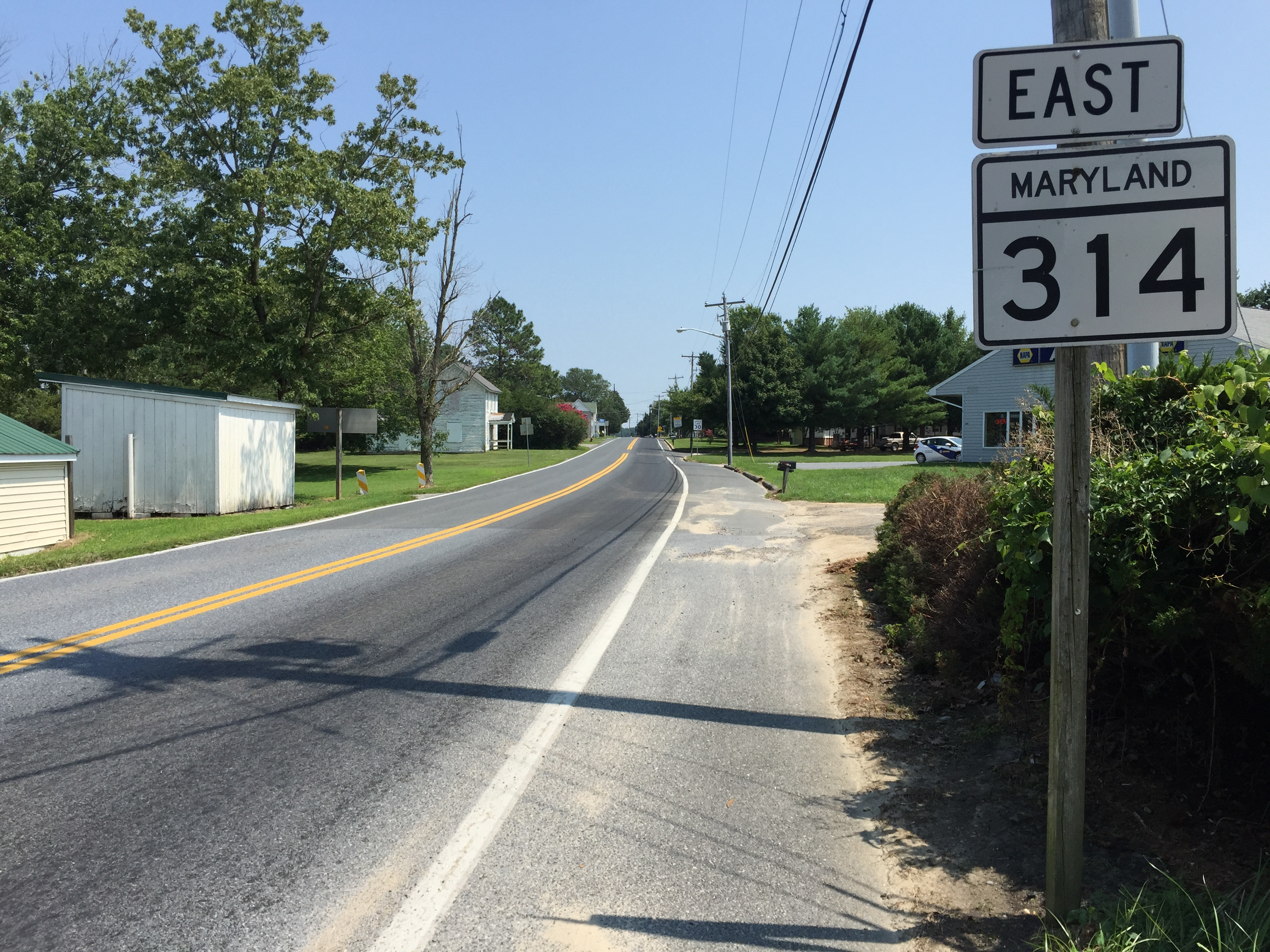 View east along Maryland State Route 314 (Whiteleysburg Road) at Maryland State Route 313 (Greensboro Road) in Greensboro, Caroline County, Maryland